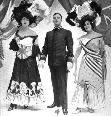 Mazie Follette, Harry Fairleigh, and Nellie Adams in "The Prince of Pilsen", from a 1903 publication. A man in military uniform, with a showgirl on either side, all standing; the women are wearing very elaborate headpieces and flag-themed gowns.